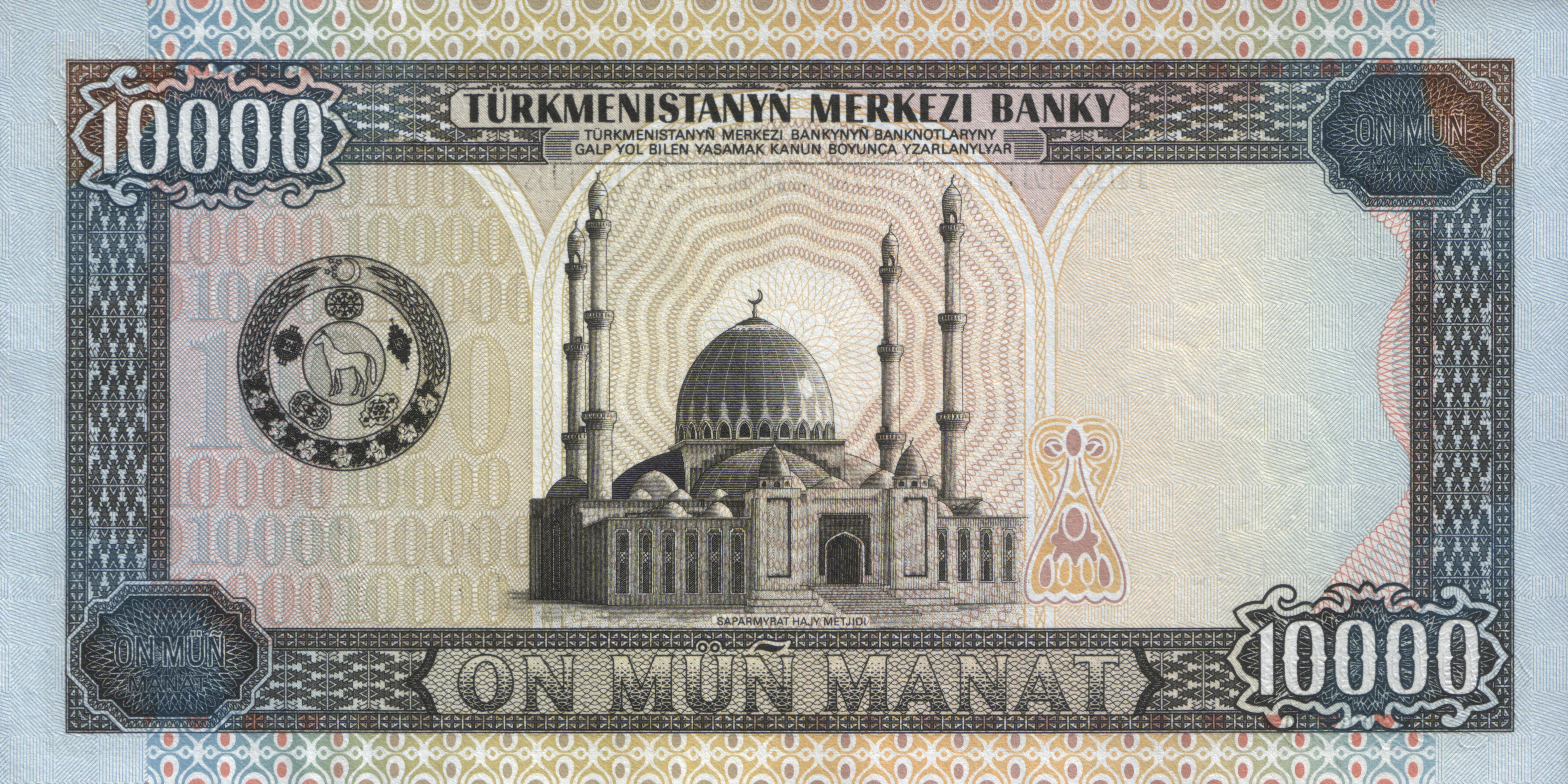 10000 manats of Turkmenistan (1998)